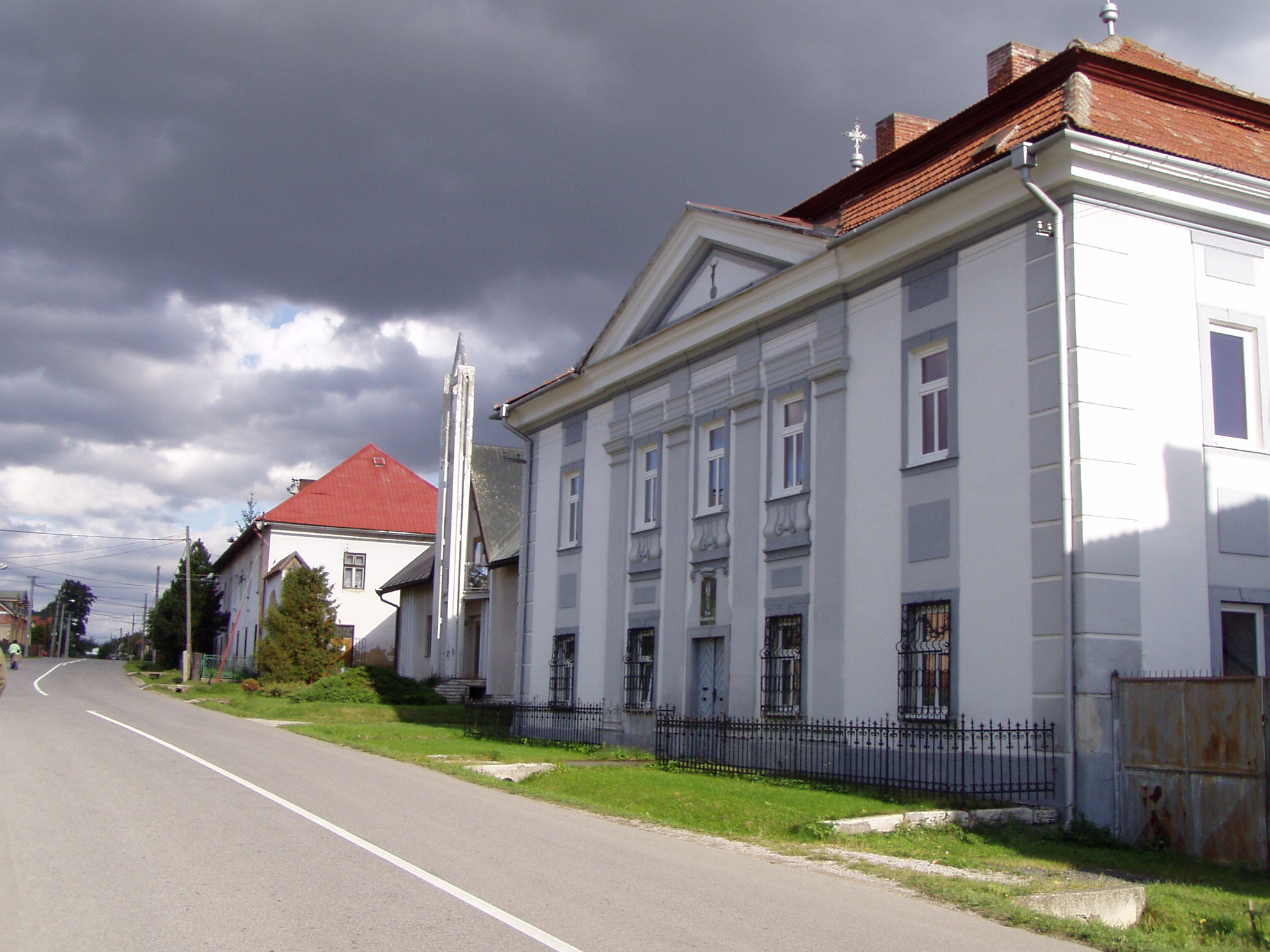 Hrabusice